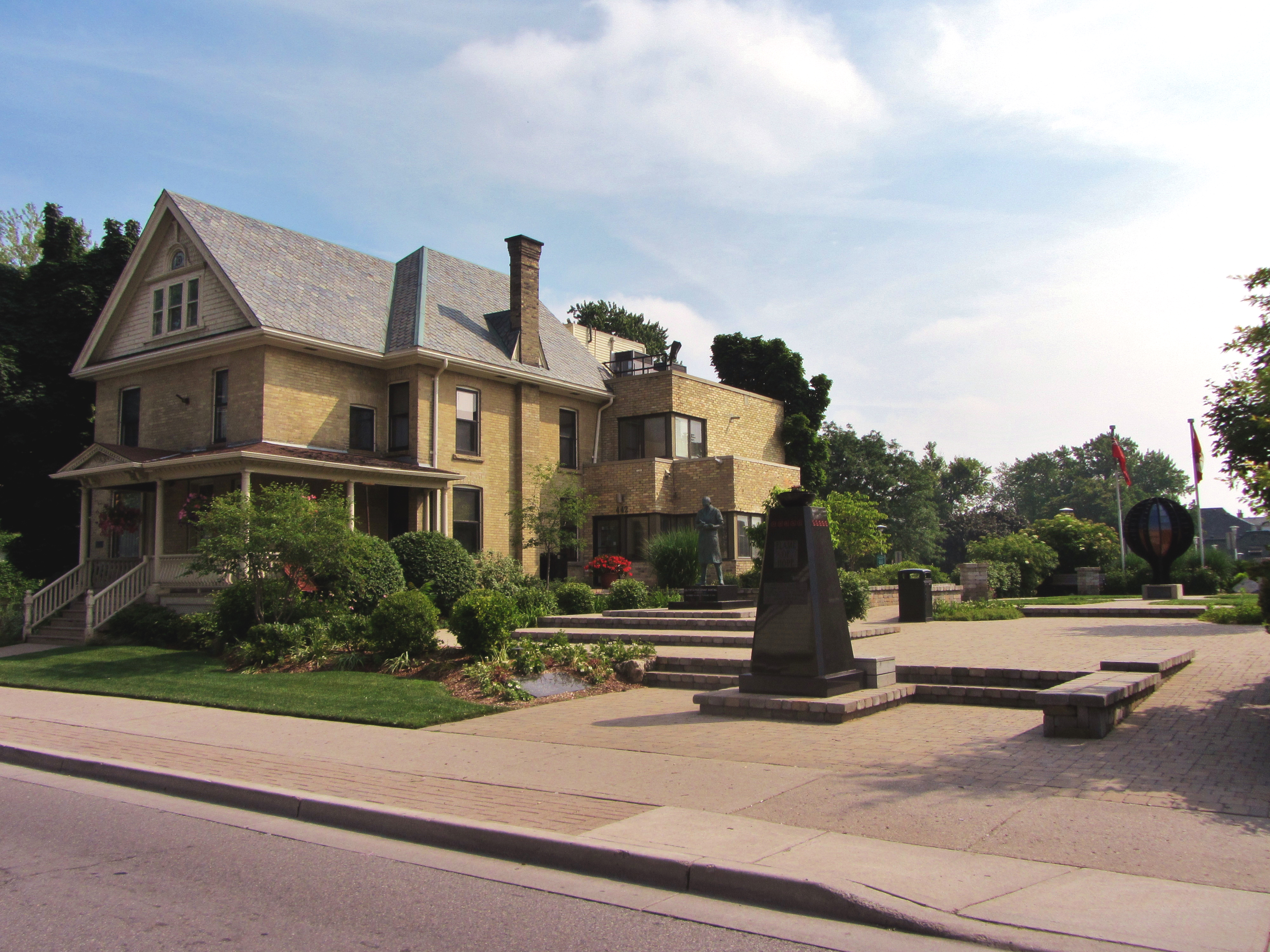 Property of Banting House National Historic Site of Canada, taken by Katrina Passierbek (author) for Banting House National Historic Site of Canada (source), in July 2013